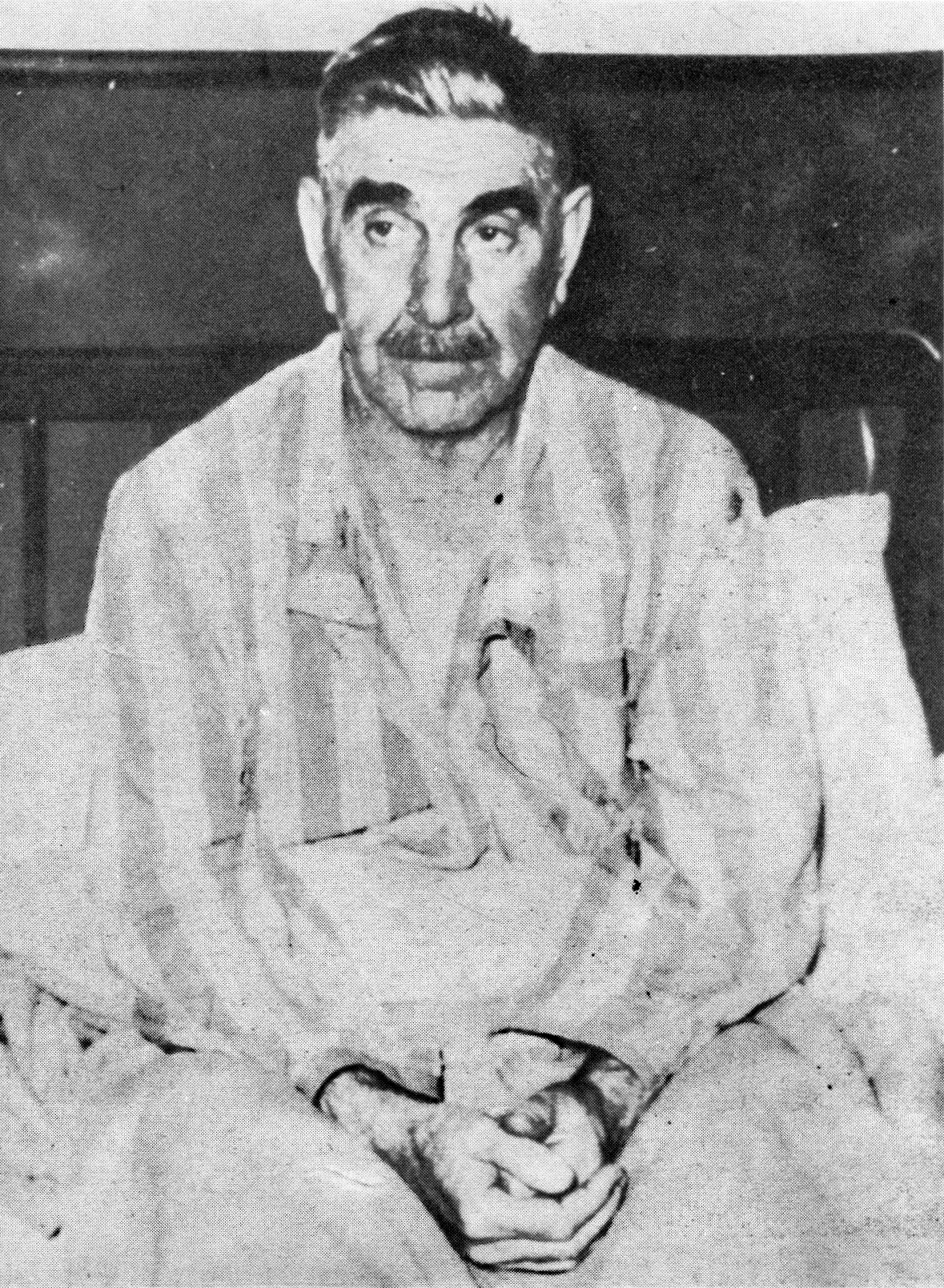 Ante Pavelić in Agentine hospital in Lomas del Palomar in 1957 after the failed assassination attempt.